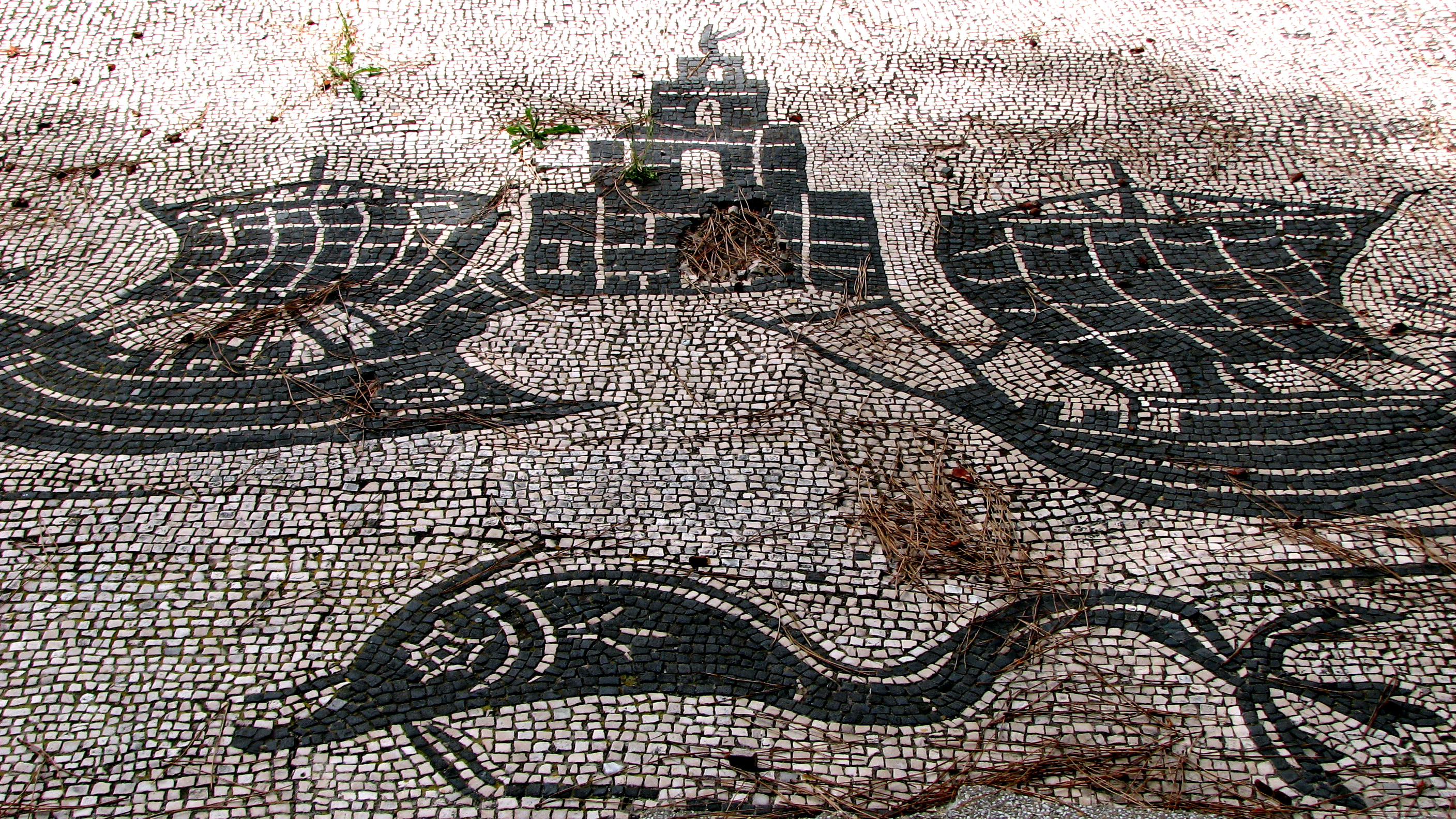 Two ships, a lighthouse and a dolphin, detail of a mosaic pavement. Stall 46, Piazzale delle Corporazioni (regio II, insula VII, 4), Ostia Antica, Italy.